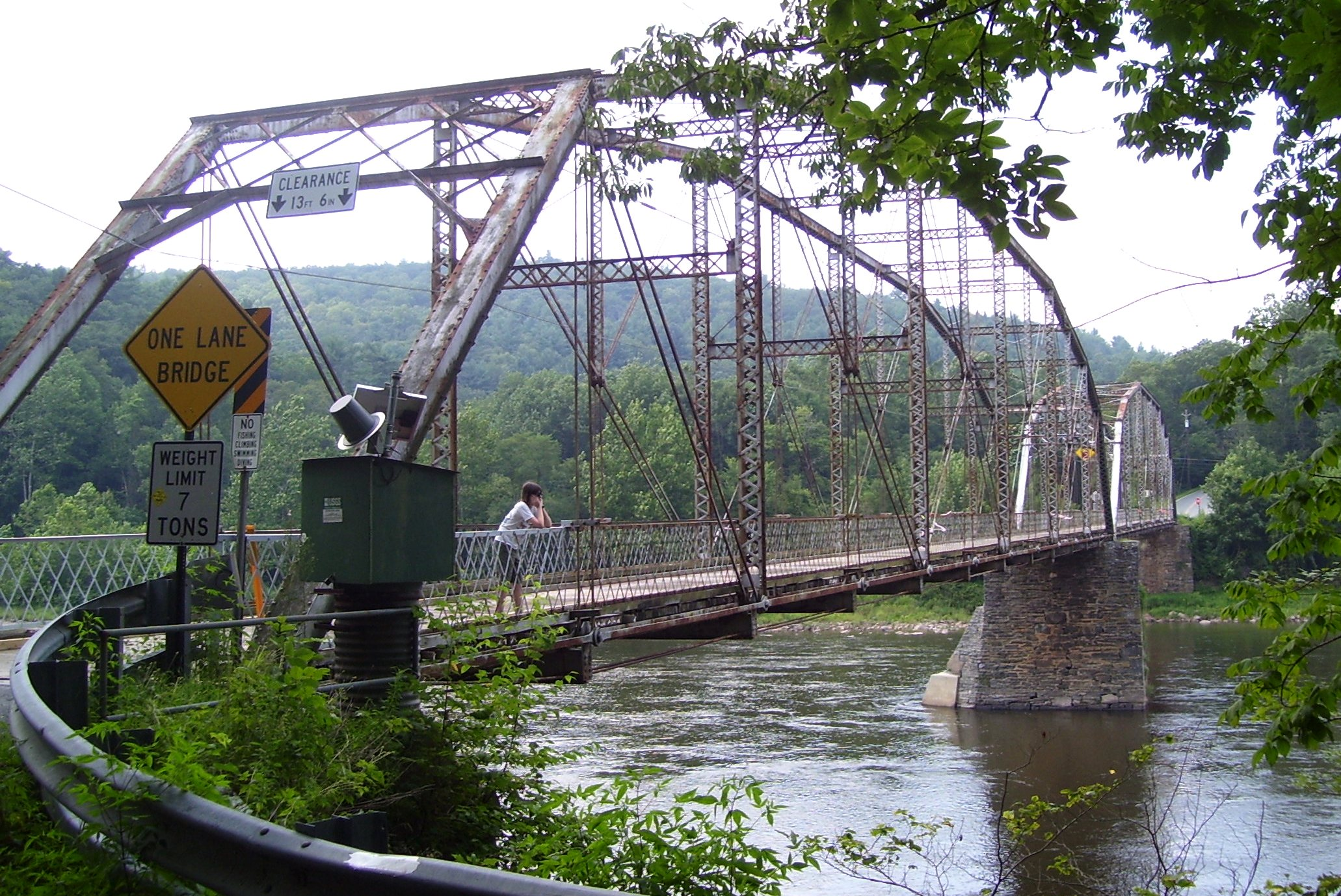 The Pond Eddy Bridge from the Pennsylvania side, downriver (east).